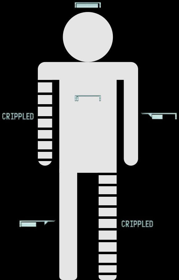 A silhouette (in game of Vault Boy) from the Fallout series showing which limbs the player currently has crippled. In this example it is the right arm and the left leg.